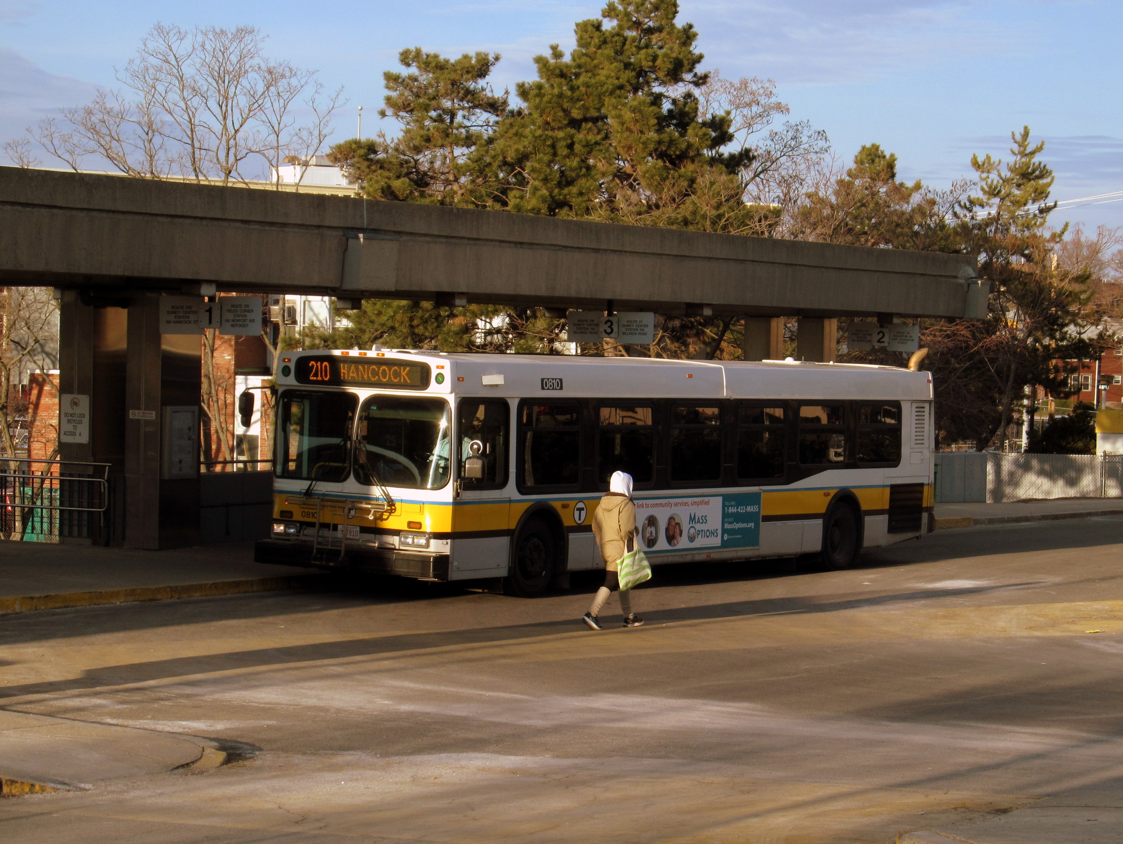 A route 210 bus at North Quincy station in January 2016